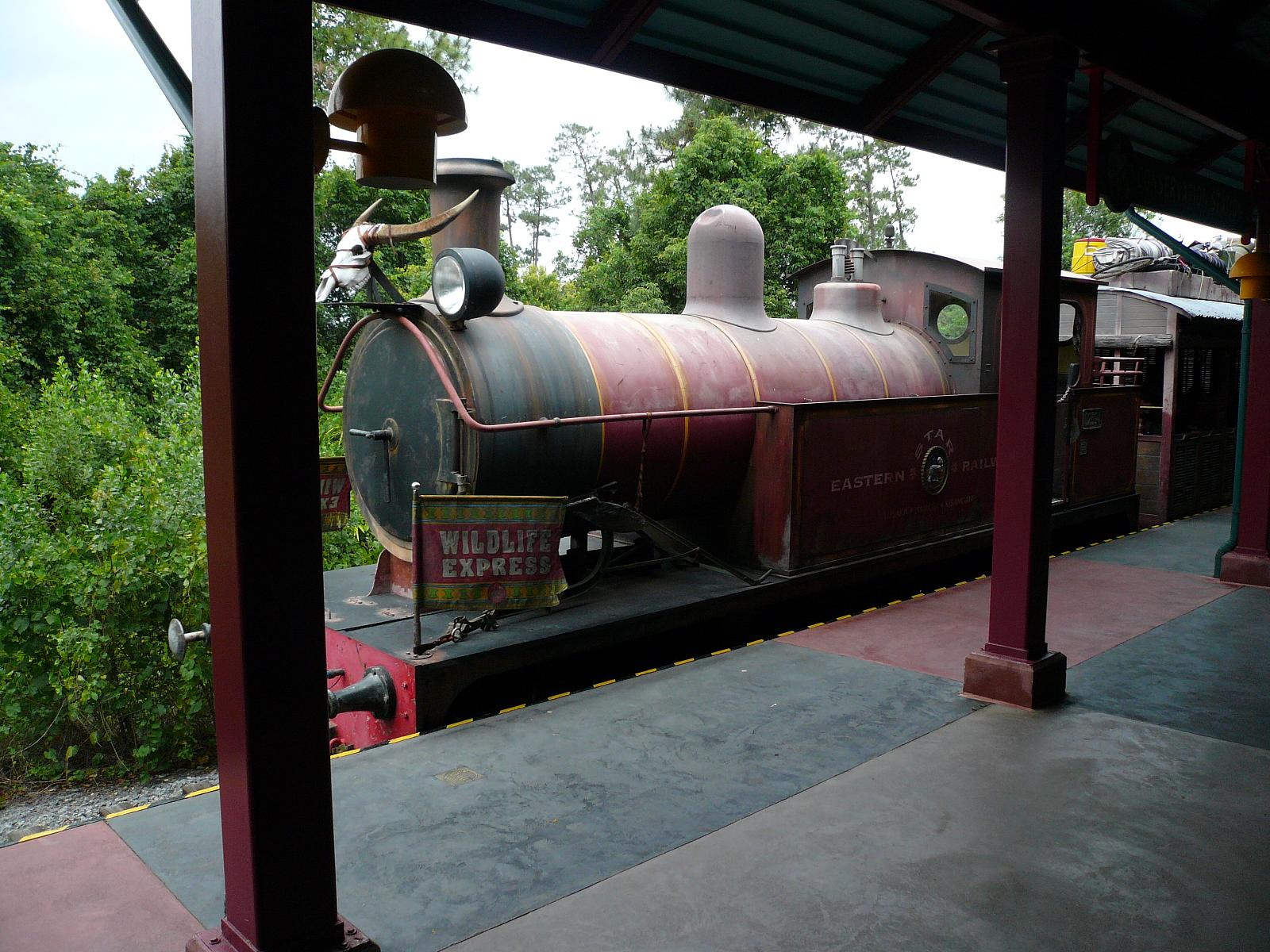 Animal Kingdom Wildlife Express